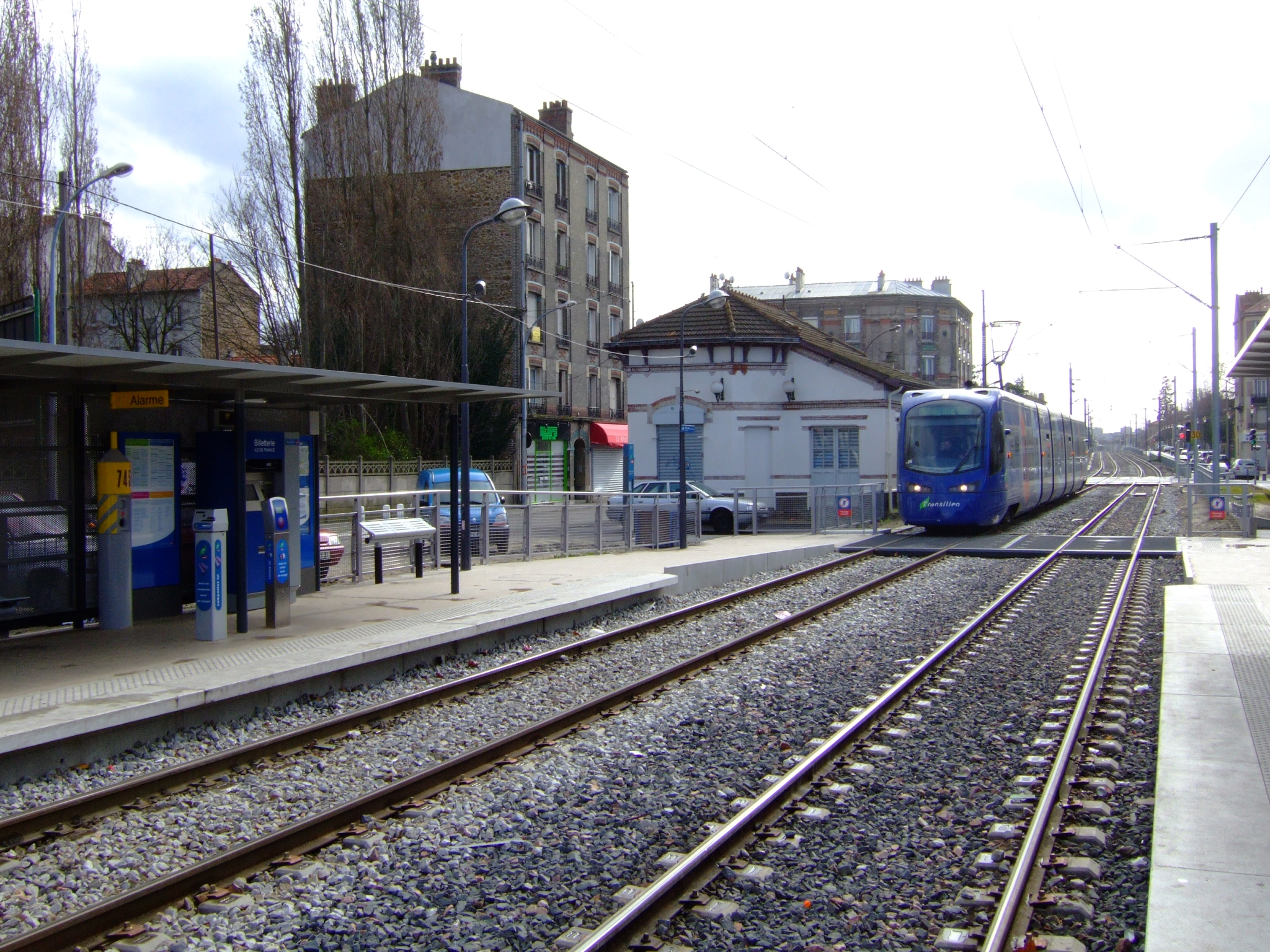 Tram-train U 25500 (Siemens AG constructor, Avento model) on renovated line between Aulnay sous bois and Bondy (both in Seine Saint Denis, France). This line is now named T4 from tramway parisien network. Here tram is approaching the Les Pavillons sous bois station in direction to Aulnay sous Bois (traffic on right).